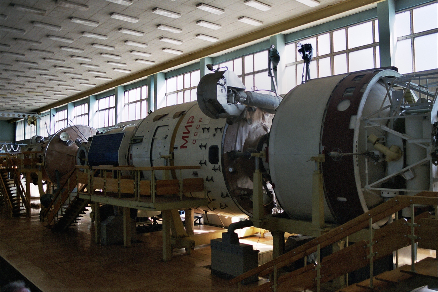 A training module for the Russian space station Mir, in the Gagarin Cosmonaut Training Centre, Star City.